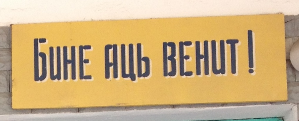 Sign in Moldovan Cyrillic in Tiraspol, October 2012. Молдовеняскэ: Конектаць-вэ алфабет кирилик молдовенеск ын Тираспол, октомбрйе 2012